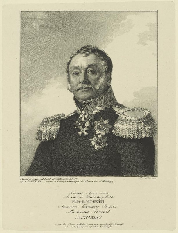 Ilovaysky, Aleksey Vasilyevich (1767 – 1842) Russian lieutenant general.